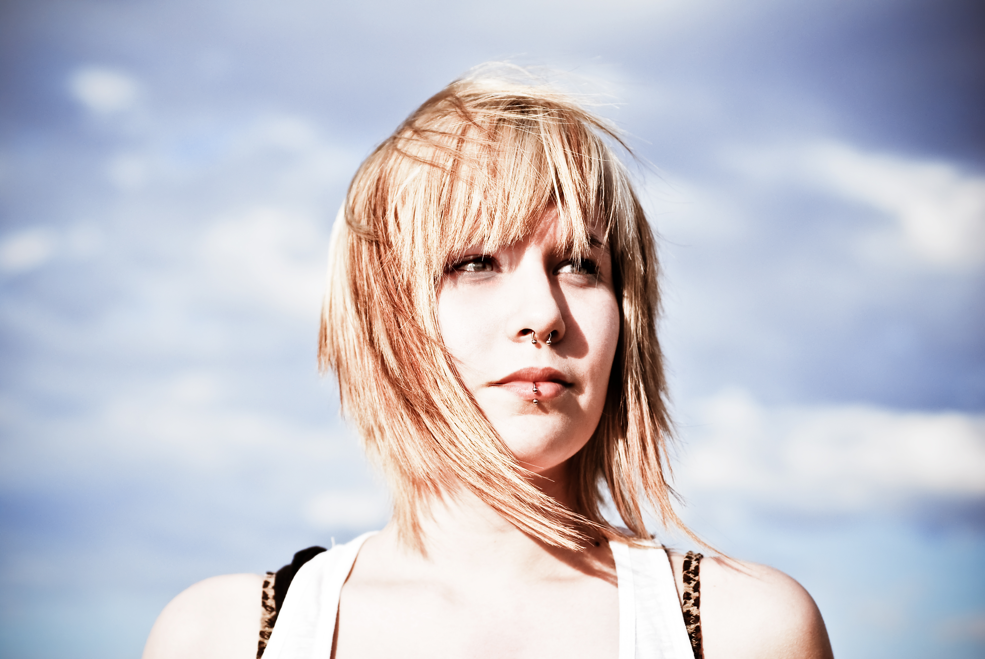 Septum and Nostril Piercing